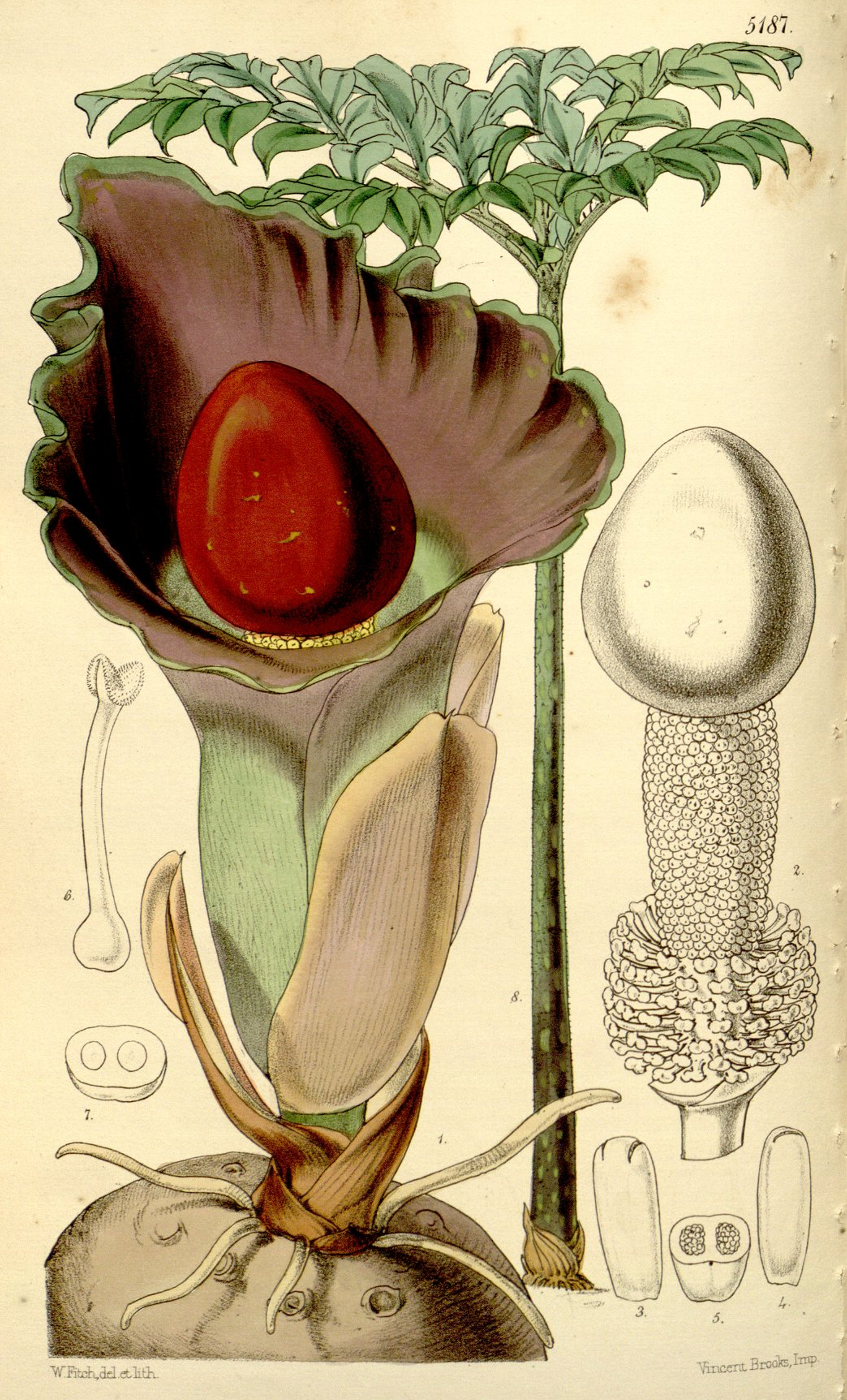 Amorphophallus paeoniifolius botanical drawing (Curtis's Botanical Magazine)